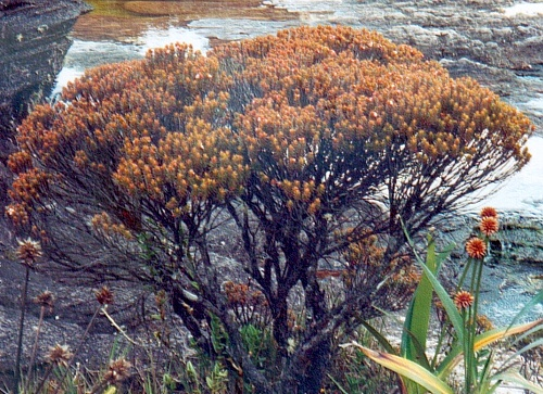 Bonnetia roraimae, Habitus on the Roraima Tepui